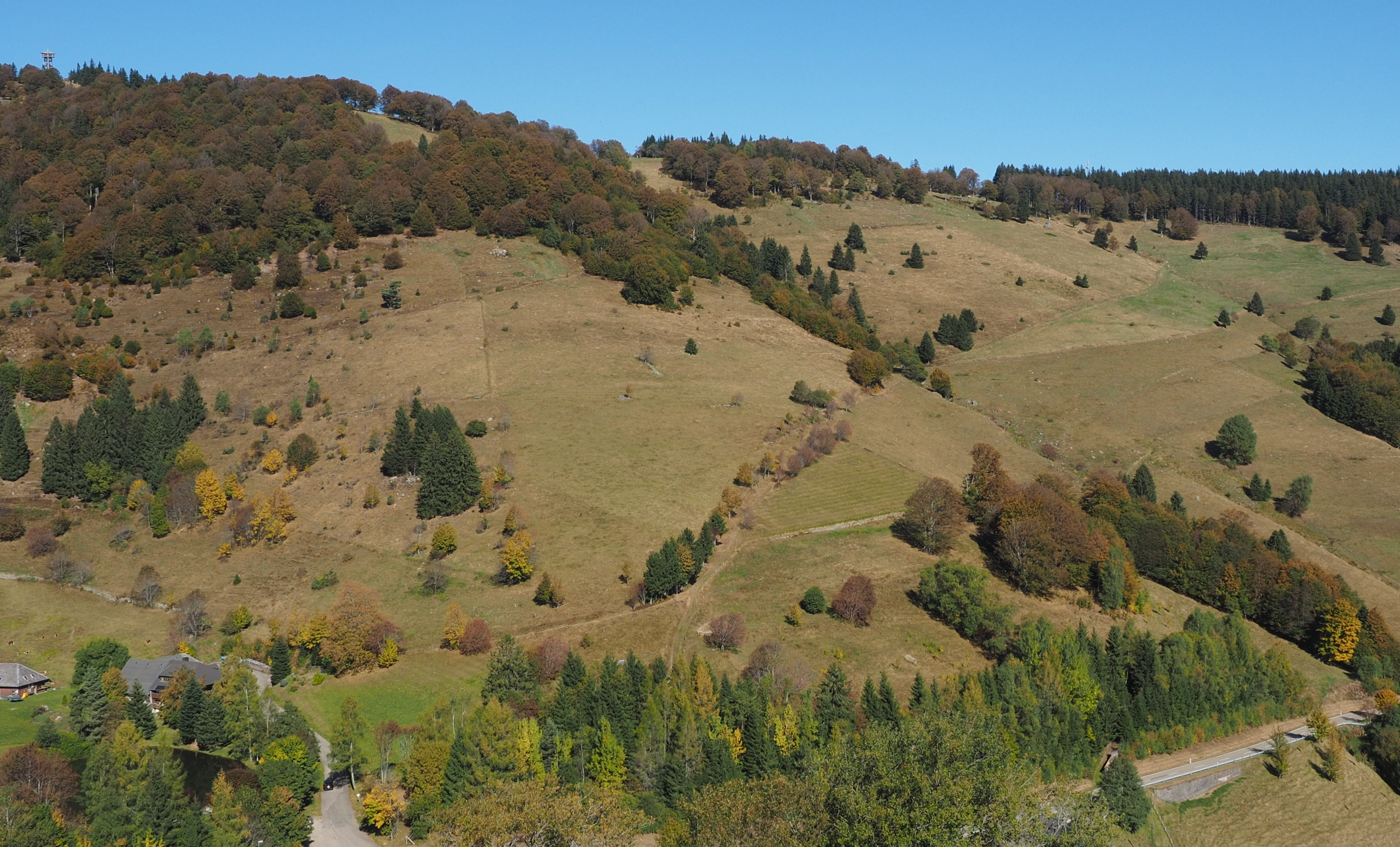 South-eastern slope of Schauinsland mountain, Black forest, Germany